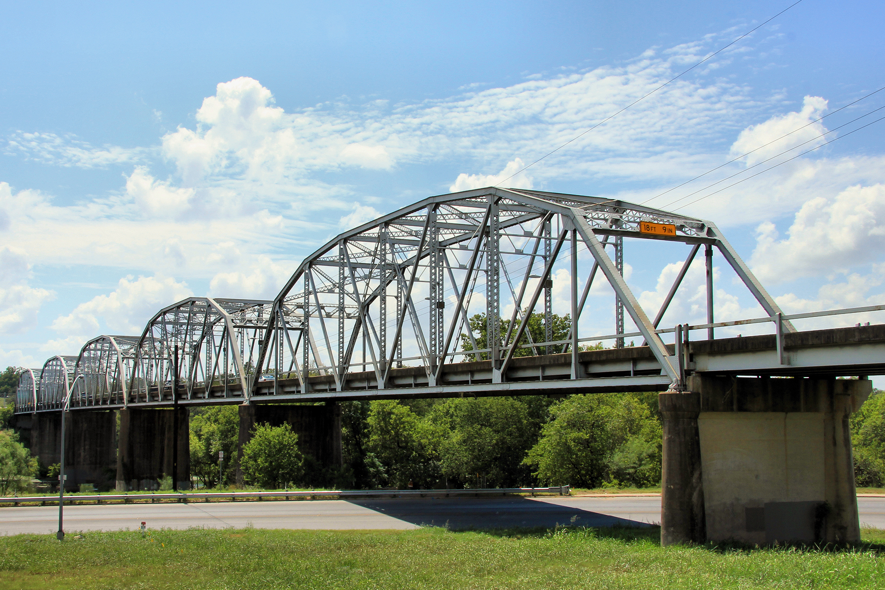 The Montopolis Bridge in Austin, Texas, United States. The bridge carries traffic southbound on U.S. Highway 183 across the Colorado River. The bridge was listed on the National Register of Historic Places on October 10, 1996.